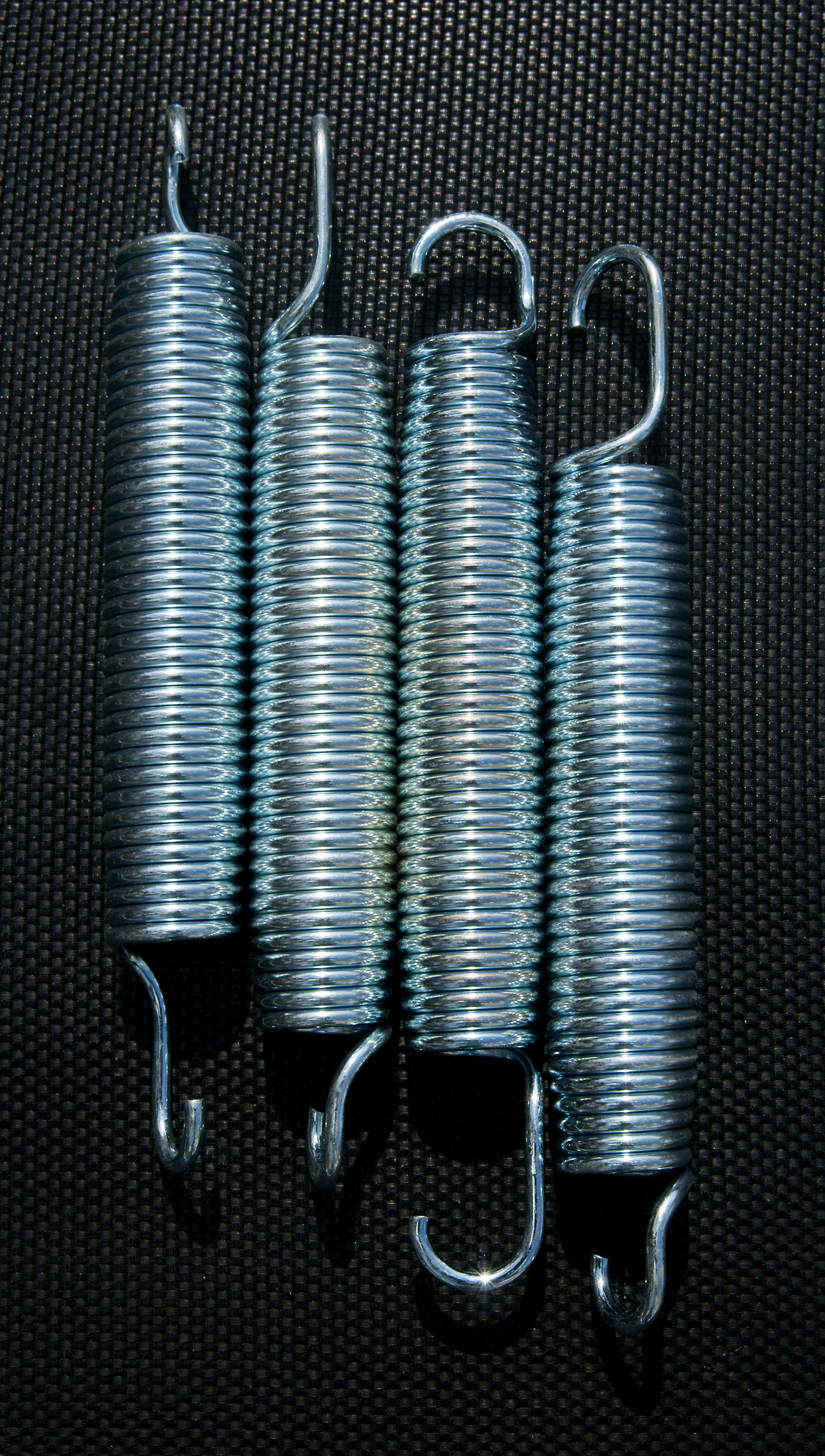 Trampoline springs on bounce mat.